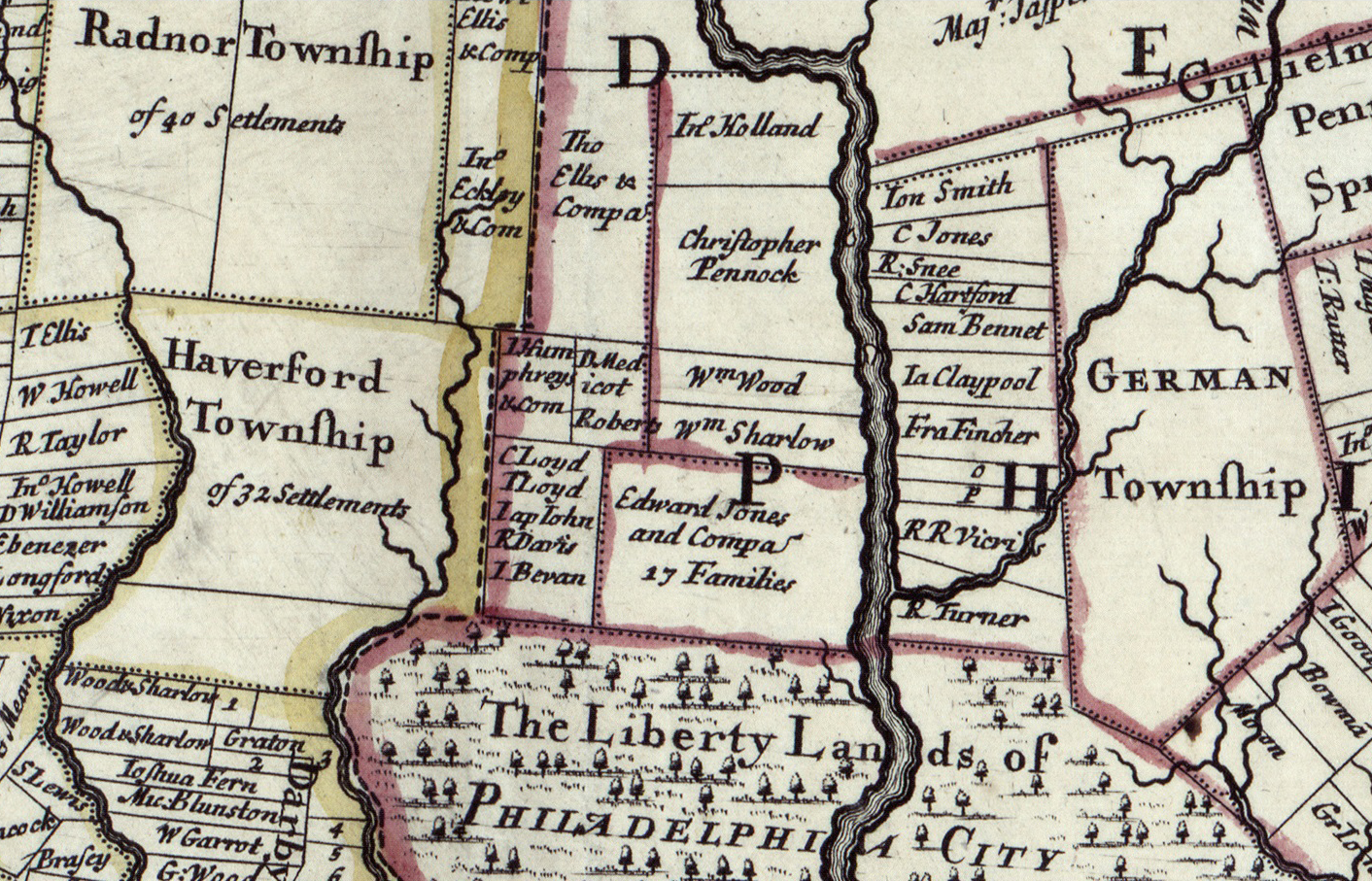 Detail of A mapp of ye improved part of Pensilvania in America (1687) by Thomas Holme, showing Lower Merion Township, Montgomery County, Pennsylvania.